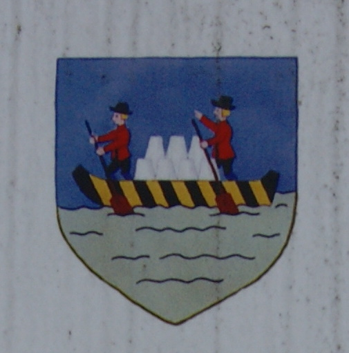 Coat of arms on the information board in front of the parish church in Lauffen, Upper Austria.